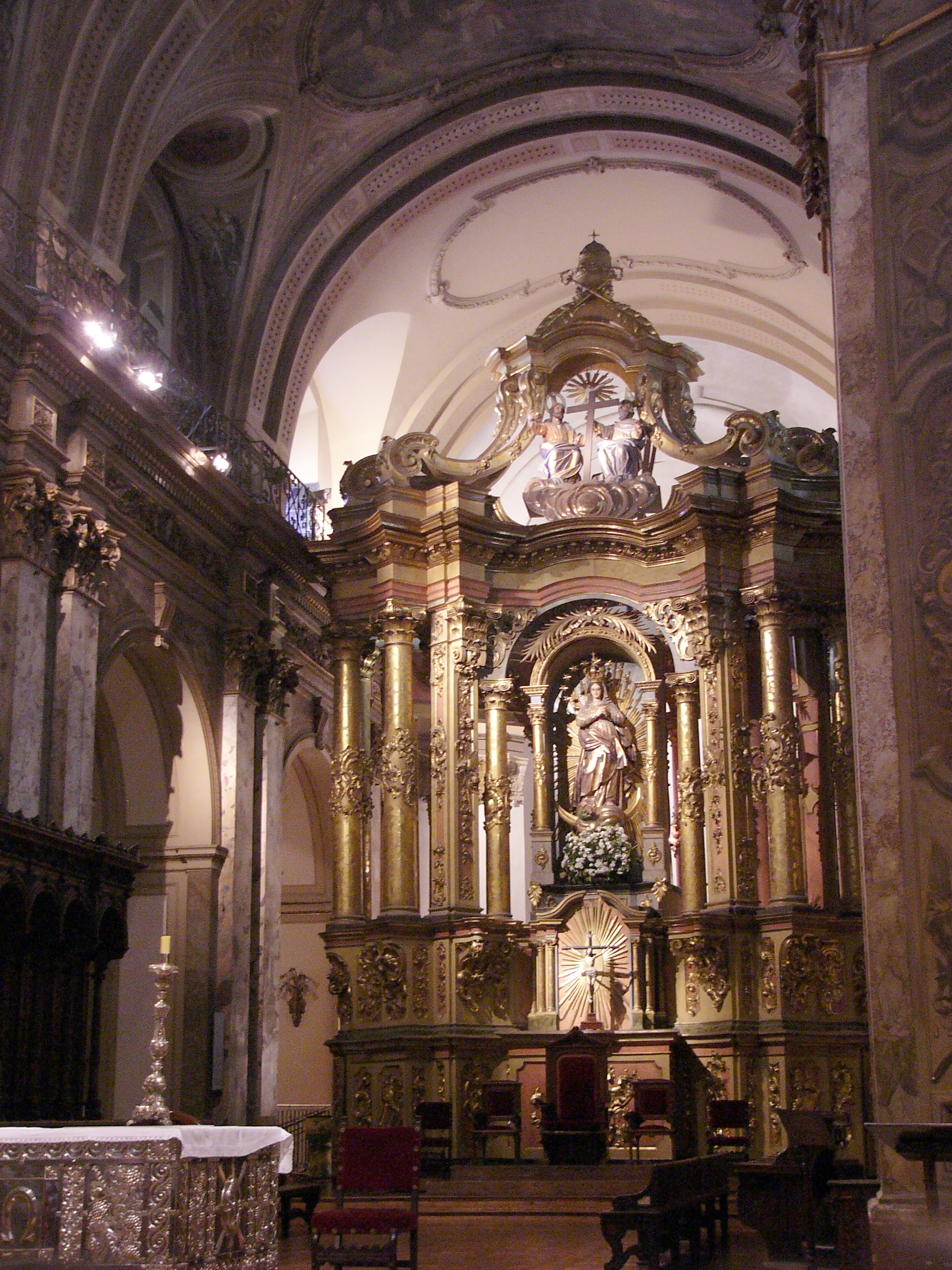 Main altarpiece of Buenos Aires Cathedral (end of 18th century)